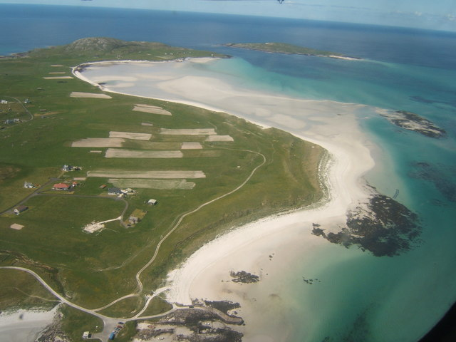 North Coast of Barra Traigh Cille-bharra runs north-westerly to Traigh Sgurabhal - WOW! - who needs to go all the way to the Seychelles?